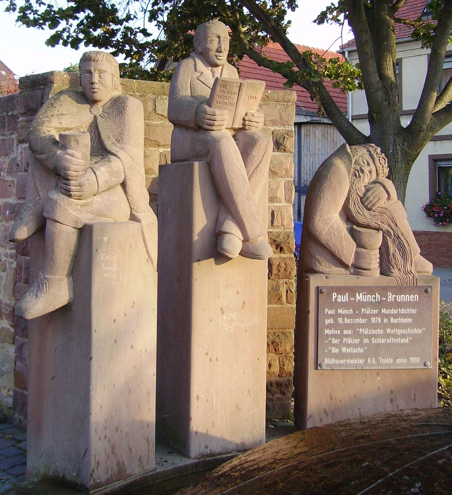 fountain in Ruchheim, part of Ludwigshafen, Rhineland-Palatinate (Germany)